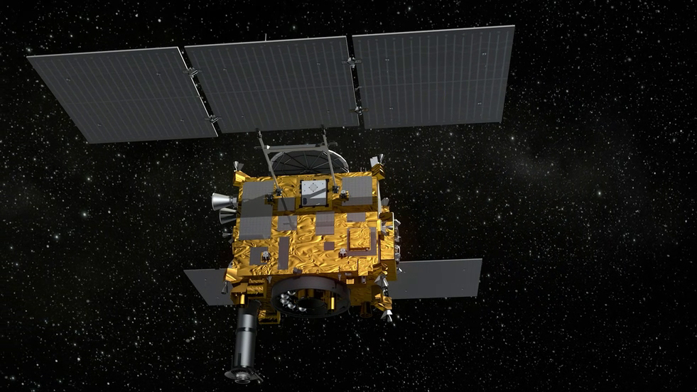 Visualization of the Hayabusa 2 probe. MASCOT lander visible.